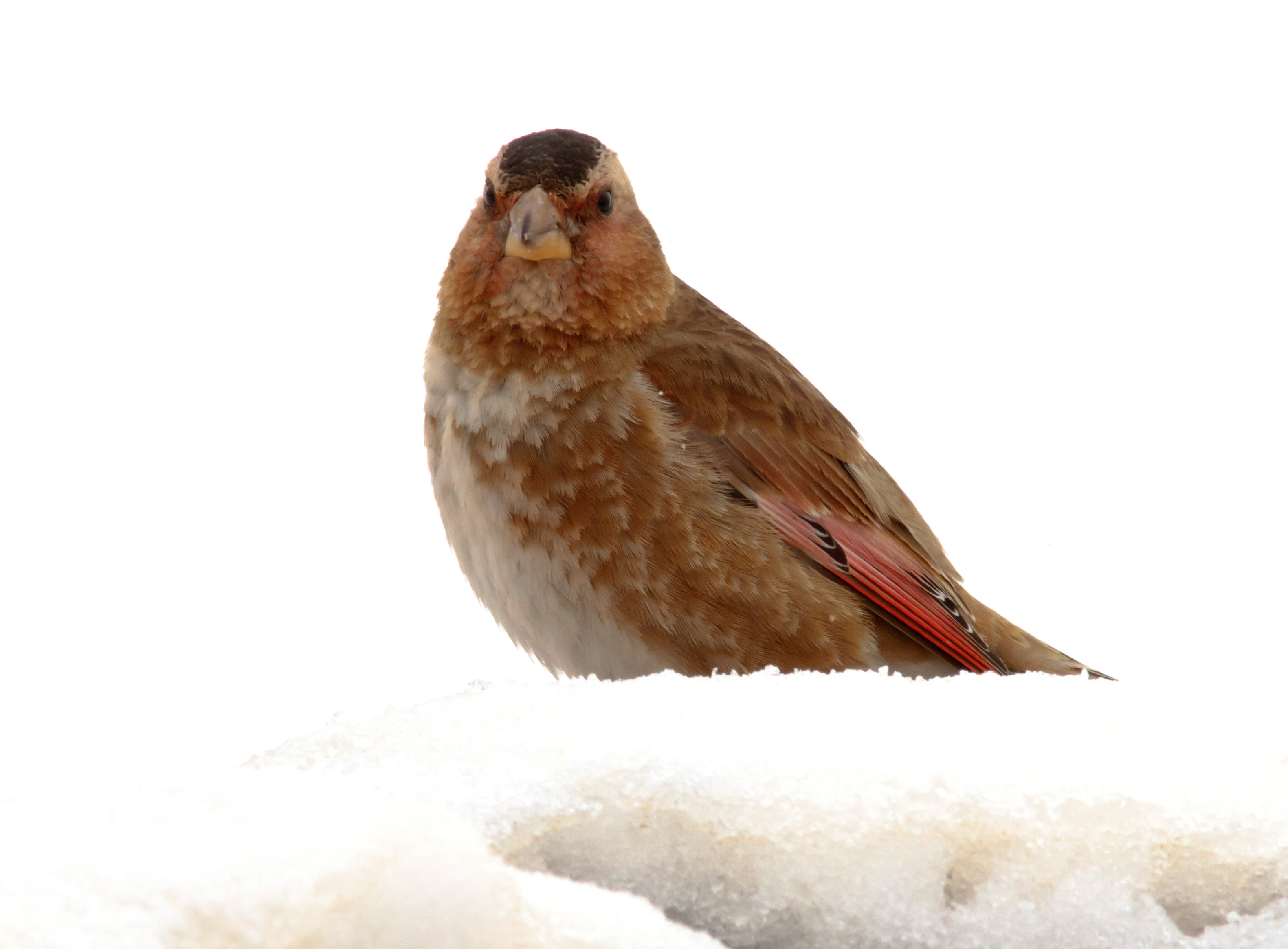 African crimson-winged finch (Rhodopechys alienus) at Oukaineden, Morocco